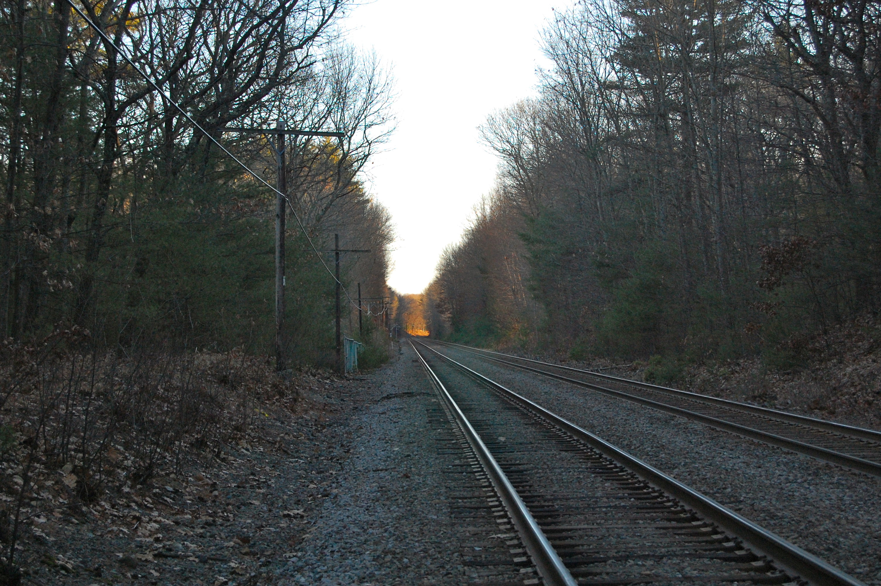 The MBTA Fitchburg Line (formerly the Fitchburg Railroad) passes next to Walden Pond. The pond is to the left of this frame.